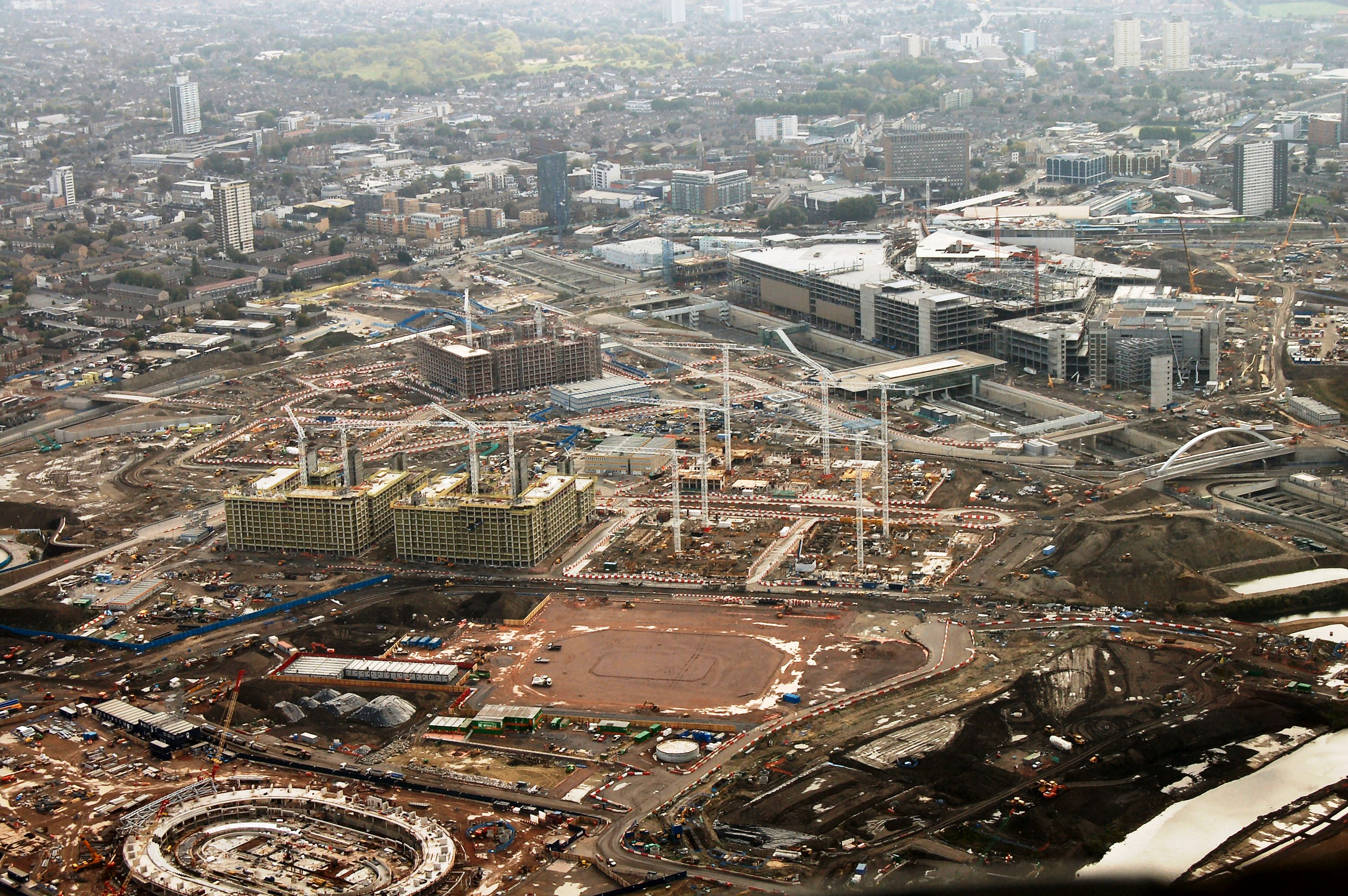 Aerial view of the Construction of Olympic Park, London — (Oct. 2009)